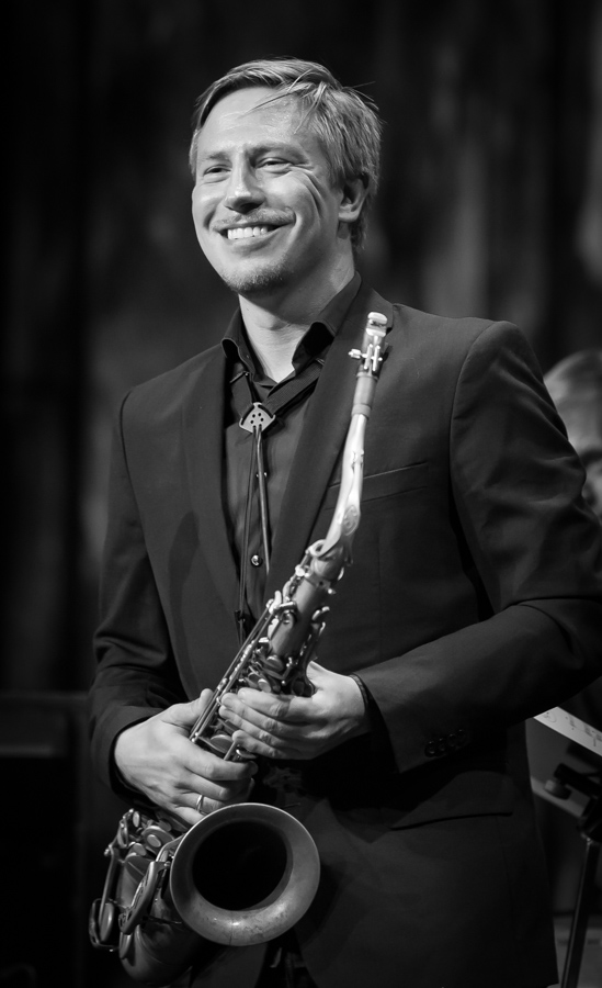 Håkon Kornstad performs "Håkon Kornstad Tenor Battle" at the stage of Sentralen. The concert was part of the Oslo Jazz Festival in Norway and took place on 19. August 2016. Lineup:Håkon Kornstad (saxophone)Sigbjørn Apeland (harmonium)Lars Henrik Johansen (harpsichord)Per Zanussi (double bass)Øyvind Skarbø (drums)